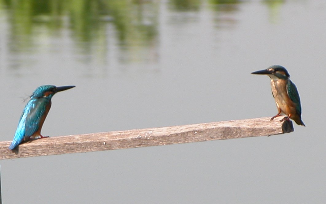 2 Common Kingfishers Alcedo atthis photographed in Buong kak lake, Phnom Penh, Cambodia. Photo by Erik Hooymans.